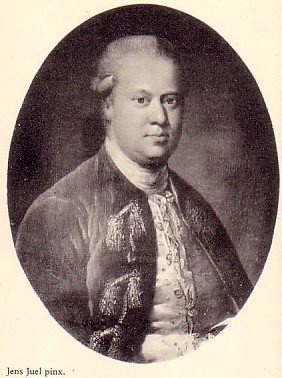 Frederik Ludvig Schulin (1747-1781), Danish Count and estate owner